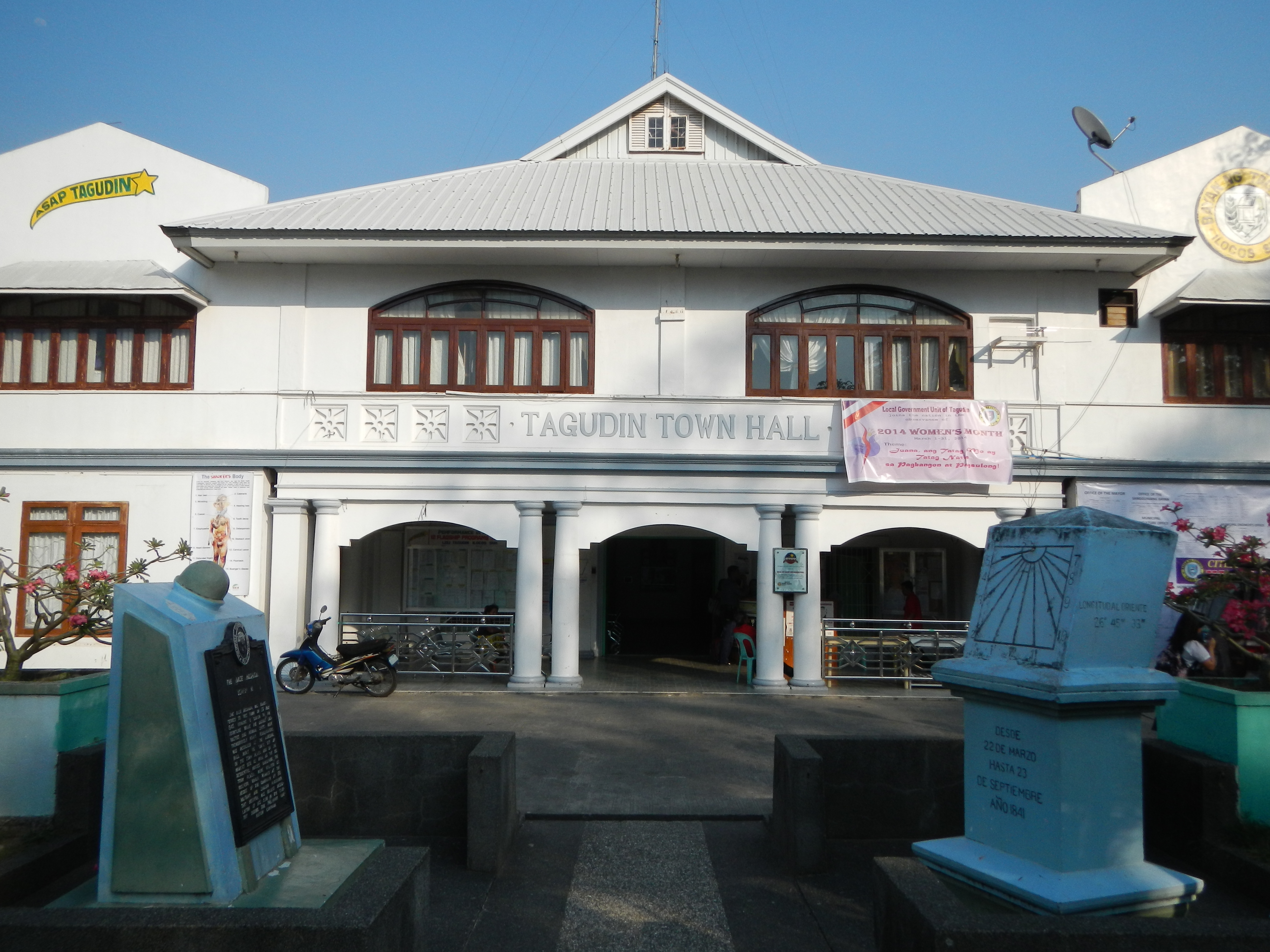 Tagudin Municipal Hall, Base Memorial Hospital Marker, Tagudin sundial